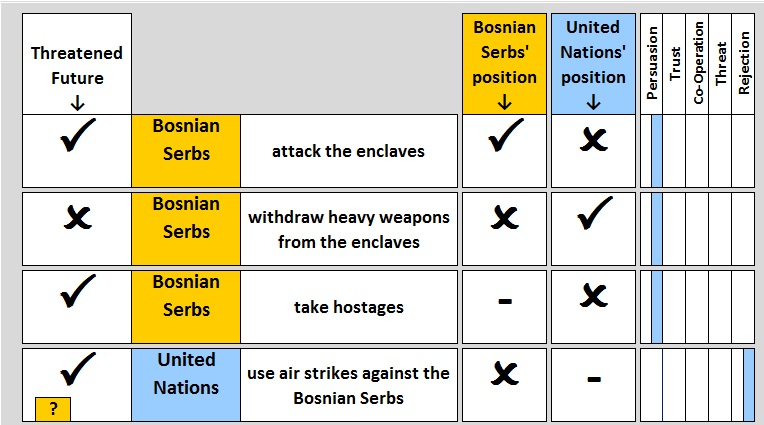 Diagram illustrating the process of Confrontation Analysis